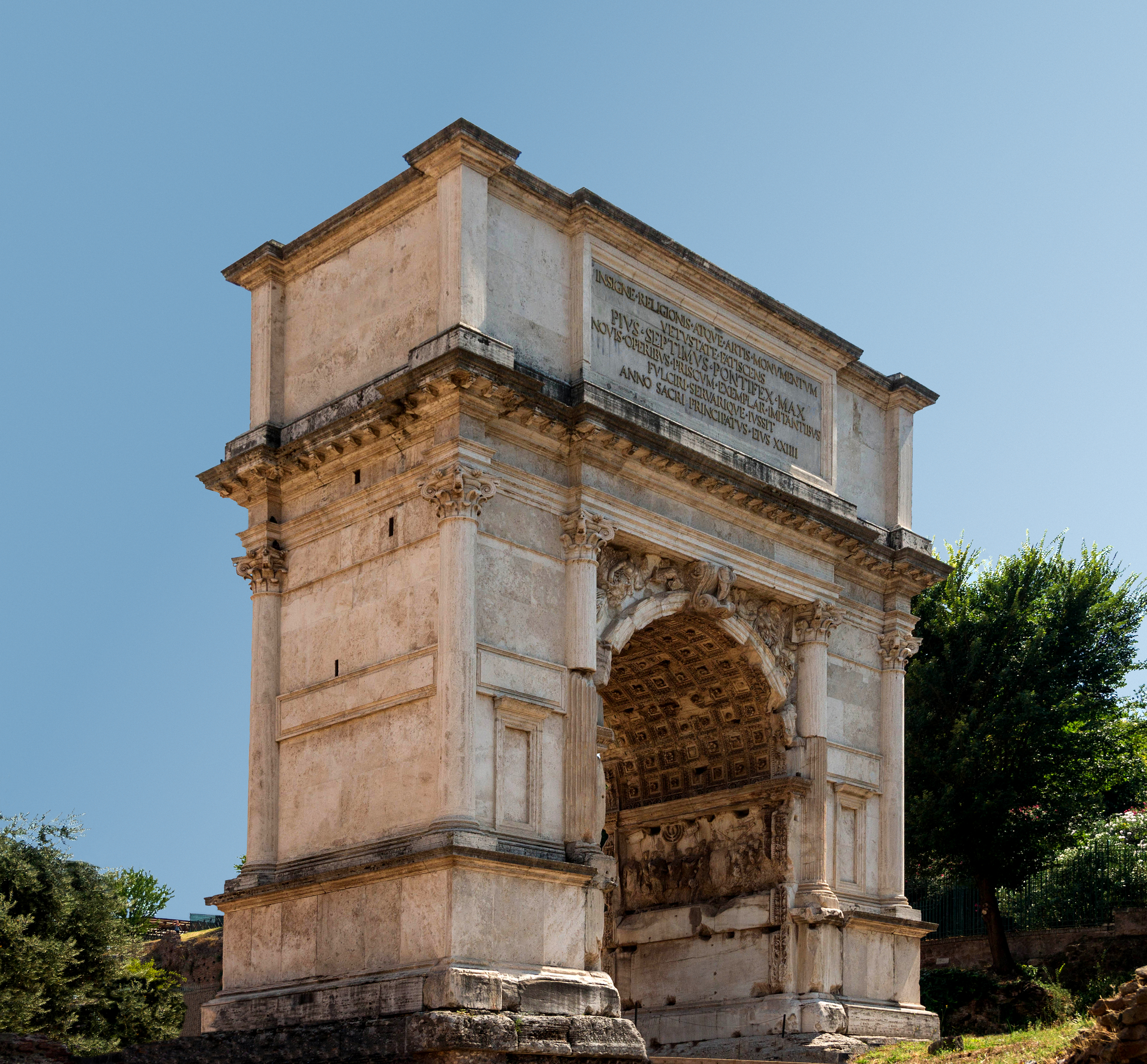 Arch of Titus, Forum Romanum, Rome, Italy.